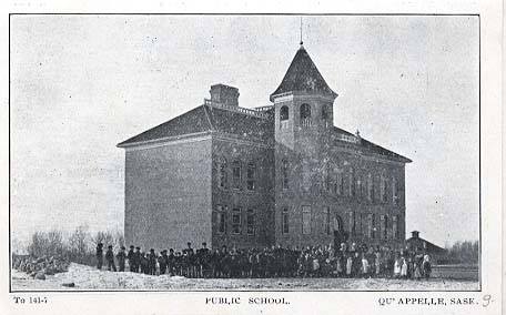 Public School Qu'Appelle shortly after World War I